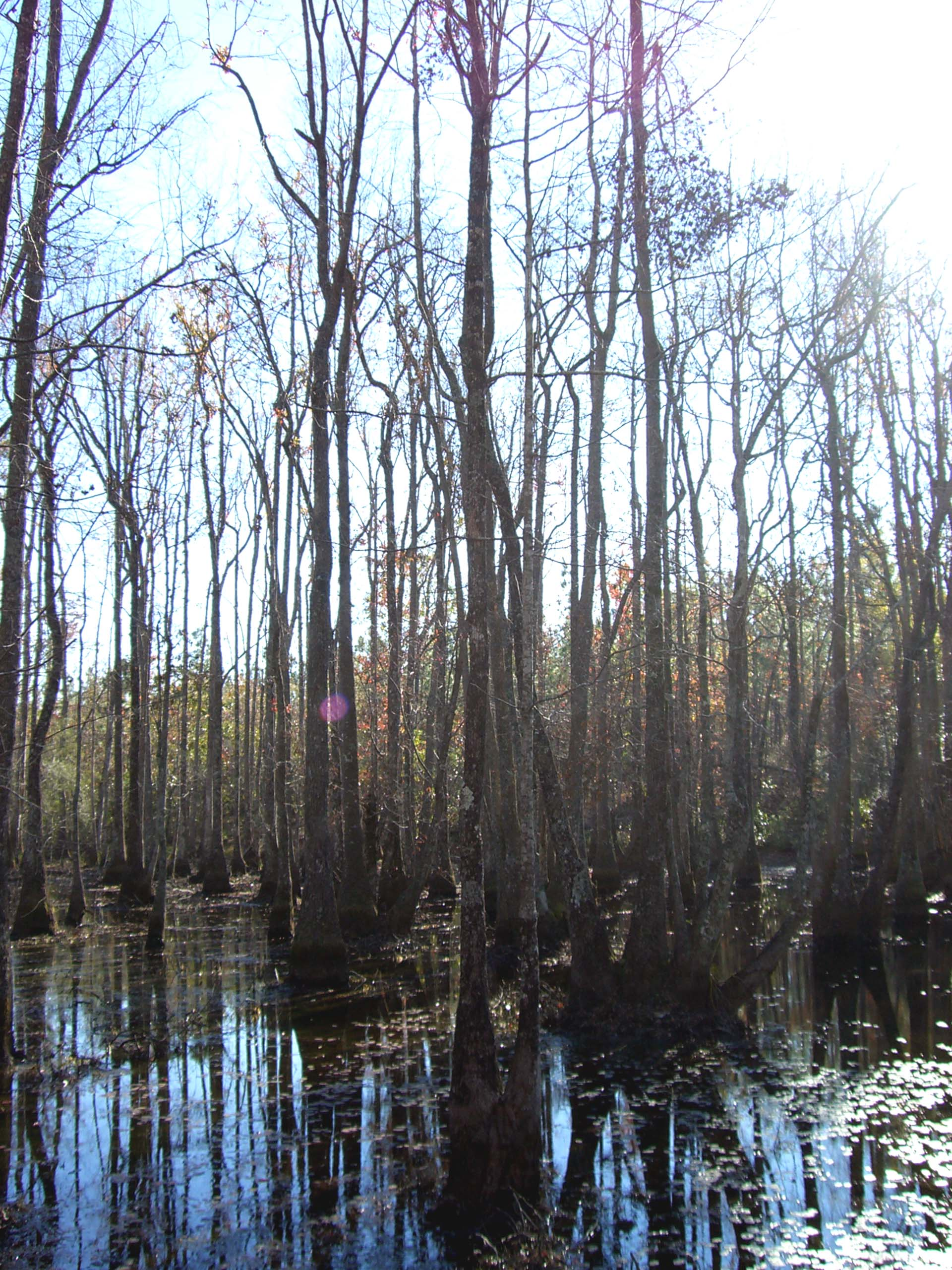 A view of Leaf River Wildlife Management Area east of Wiggins. Photo by Joe Furr (myself). All rights waived.